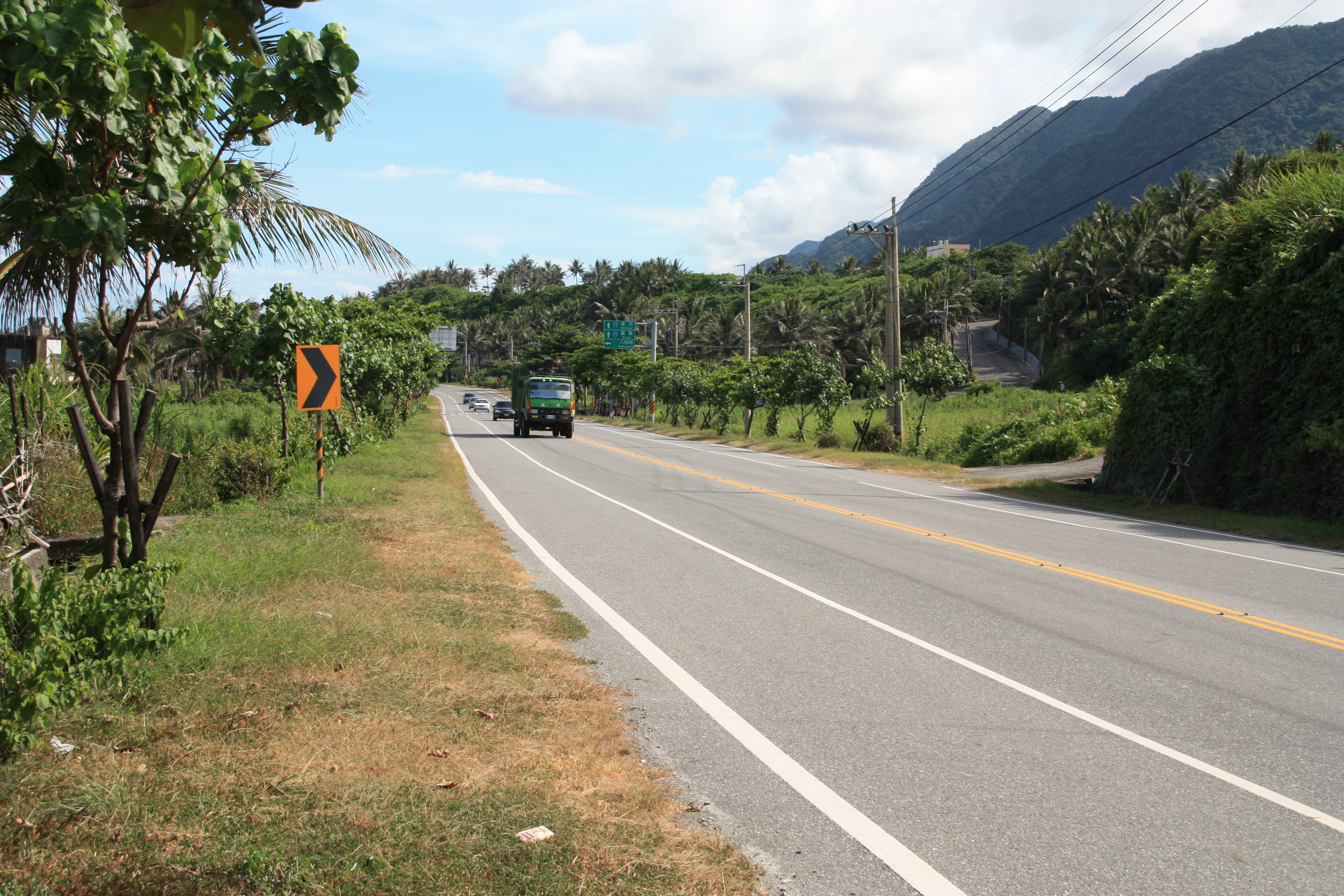 Taitung County Chenggong Township HéPíng Rd (HWY 11)